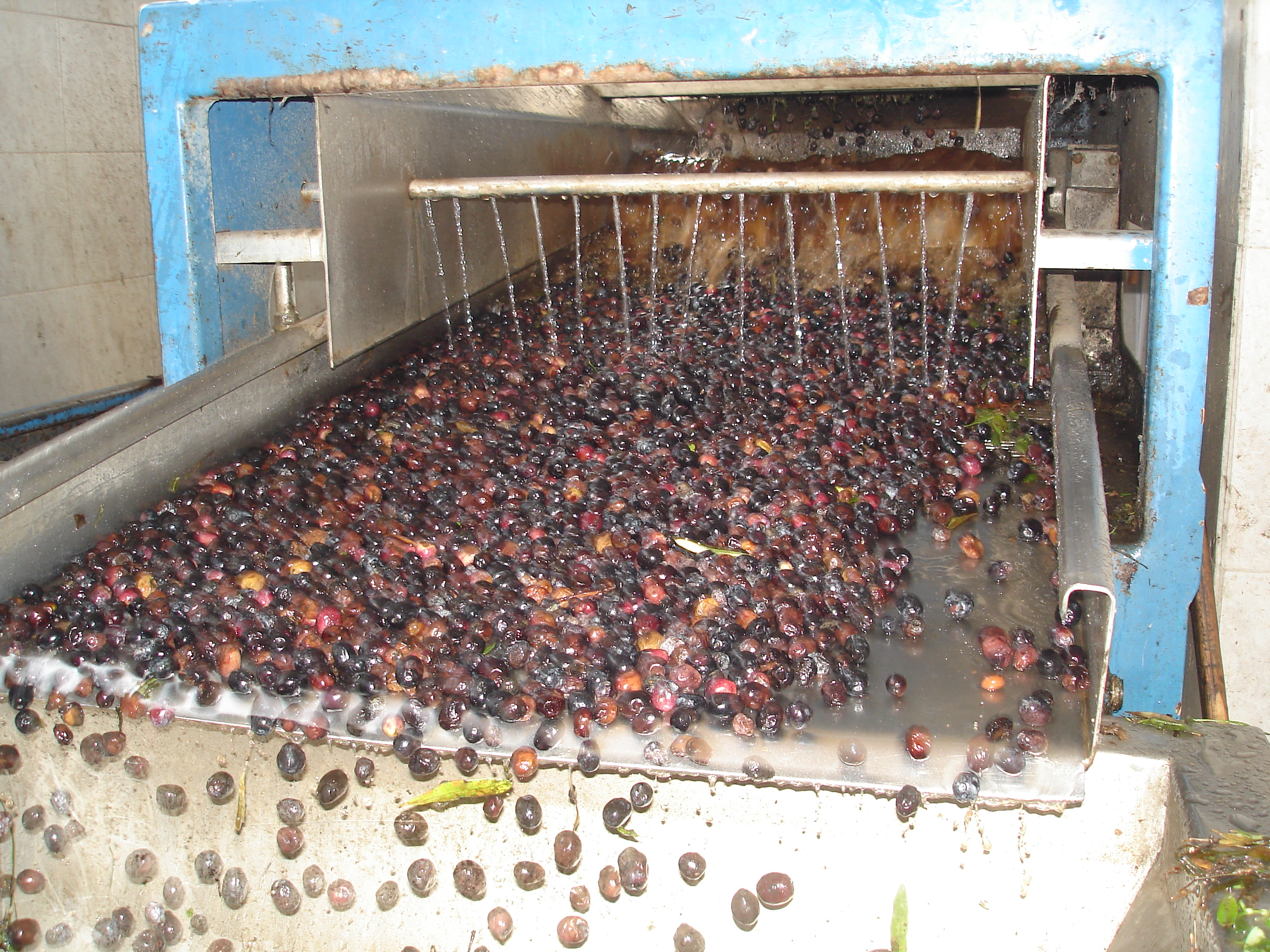 rinsing of the olives